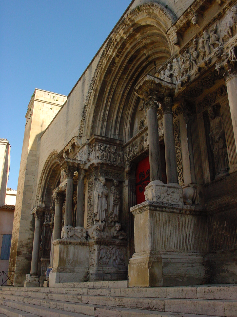 three-porched front of abbey church in Saint-Gilles-du-Gard (France)